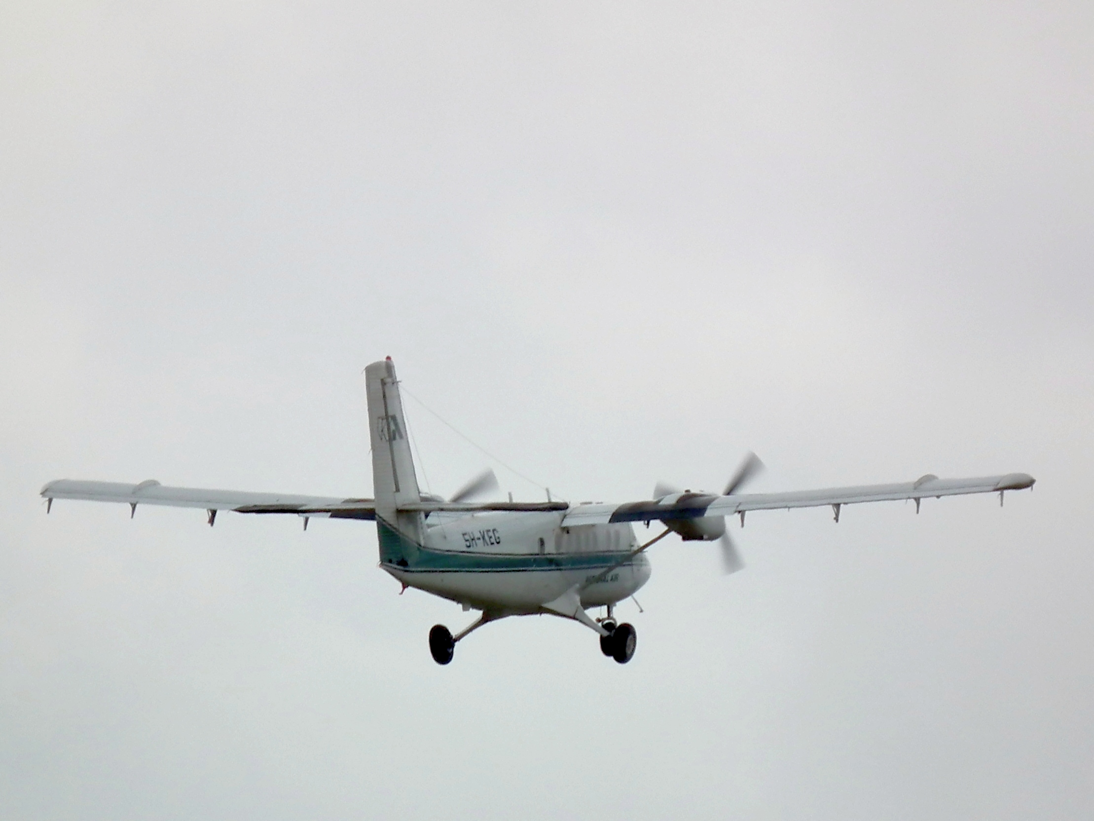 De Havilland Canada DHC-6 Twin Otter